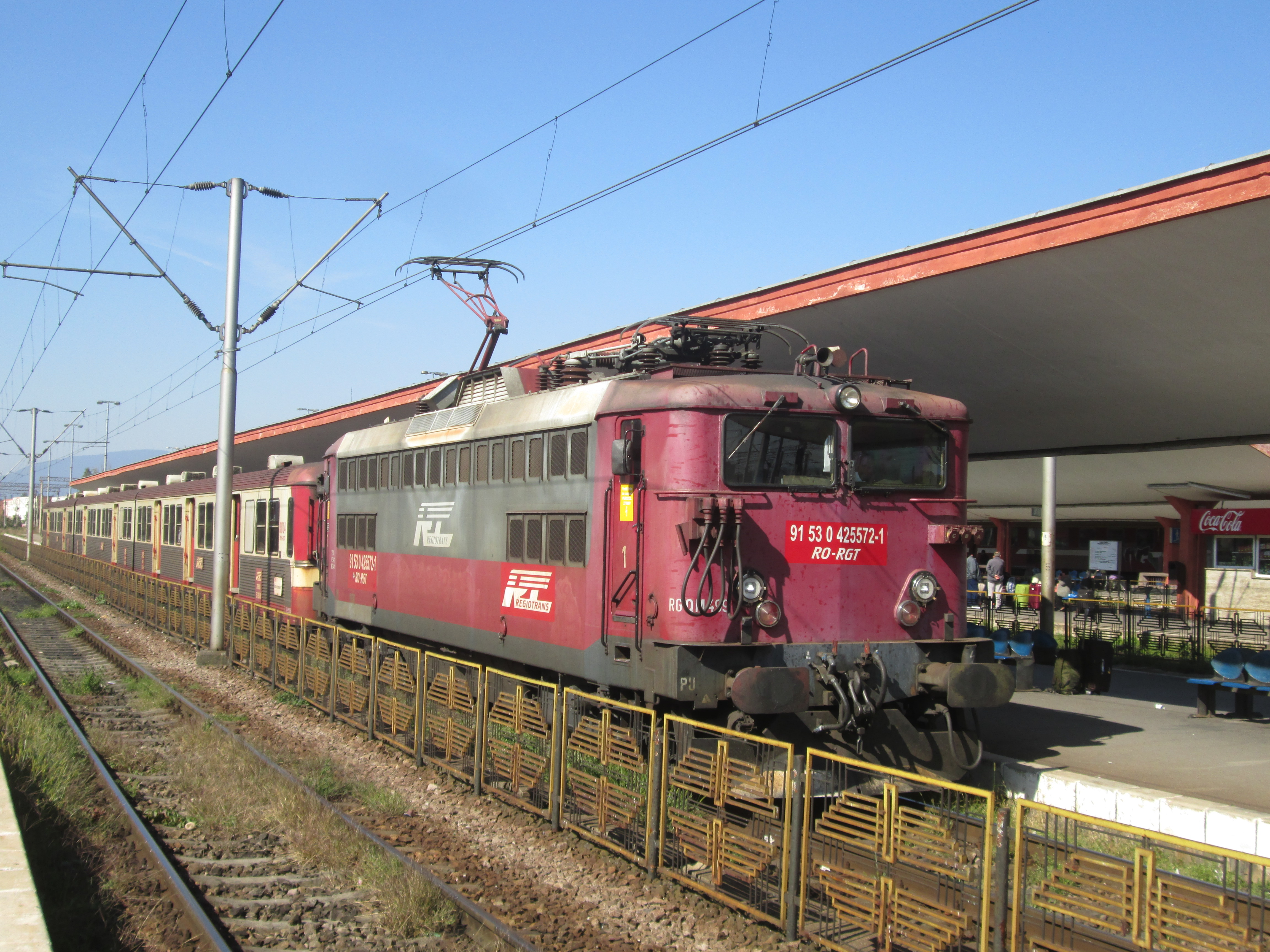 Regiotrans (formerly SNCF) BB 25572 (manufactured 1971) at Brasov rail station